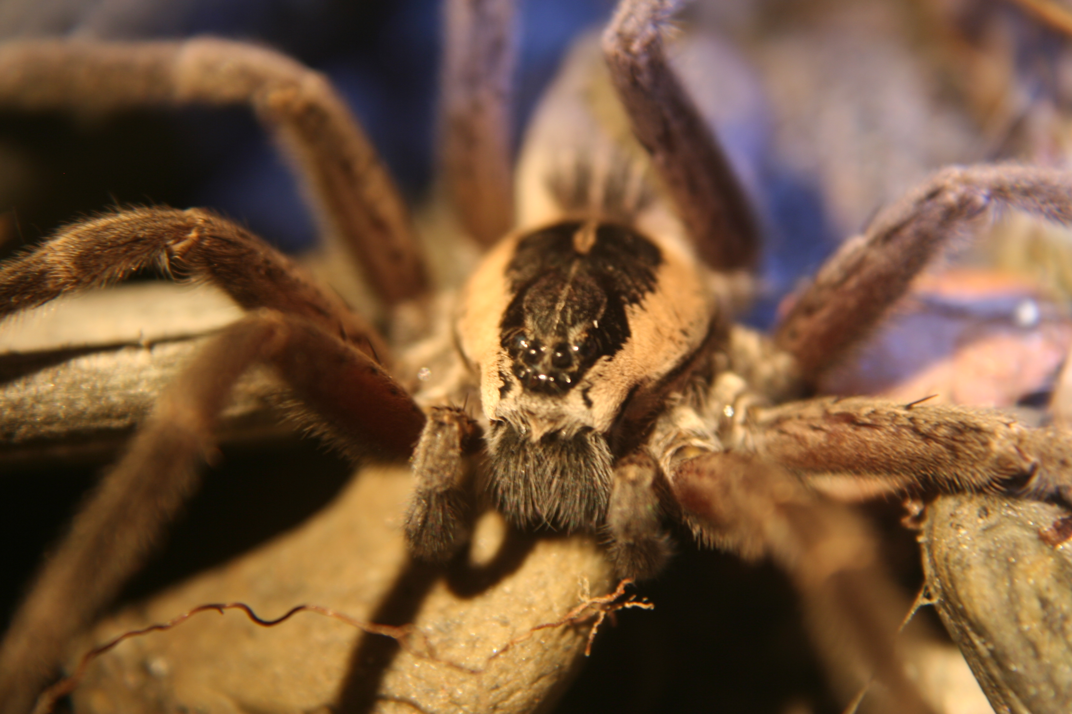 Image of Dolomedes aquaticus, New Zealand water spider. Photographed in April 2008 in Makarora Valley.